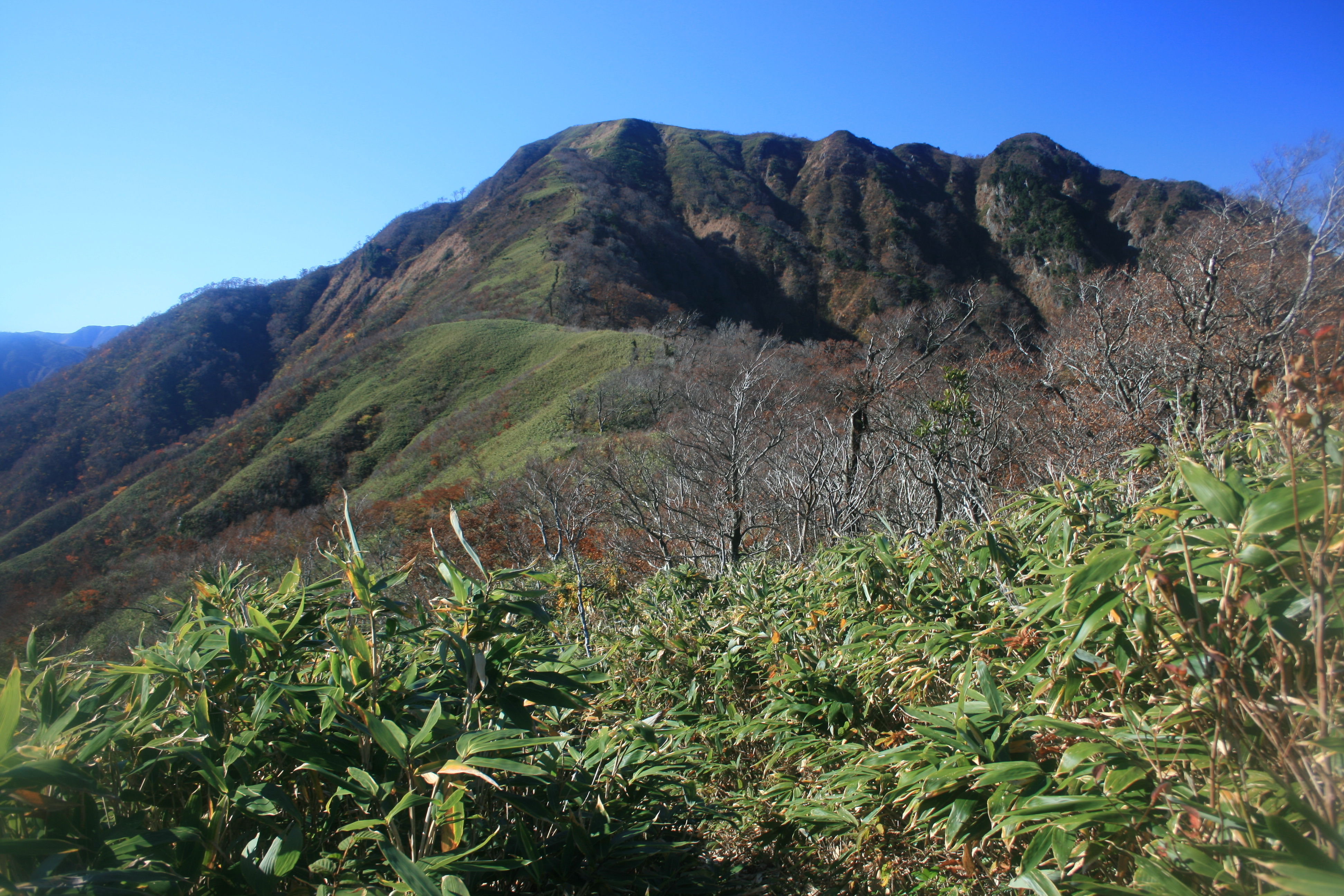 Mount Kanakusa seen from Hinokio Pass in Fukui Prefecture and Gifu Prefecture, Japan.